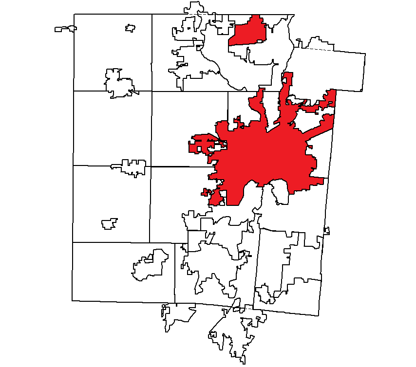 created from US Census shapefiles